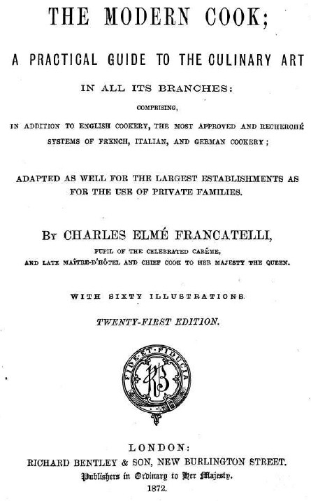 Title page of Francatelli's The Modern Cook, 21st edition, 1872